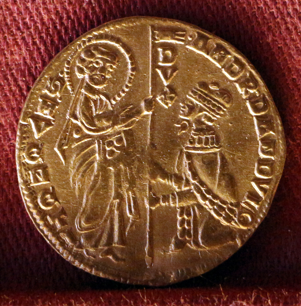 Coins of Venice in the Museo Correr (Venice)